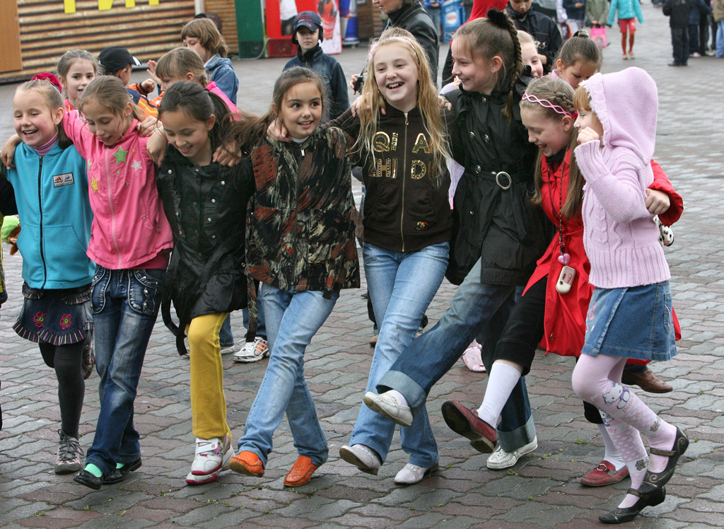 “Festivities in Vladivostok to celebrate International Children's Day”. Young citizens of Vladivostok celebrating the International Children's Day.